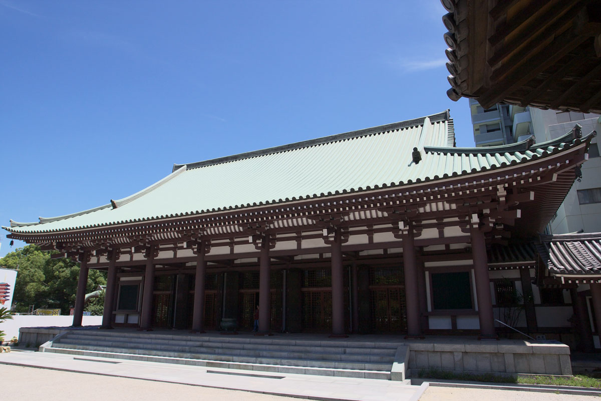 Touchouji temple, gate, in Hakata, Fukuoka city, Japan.